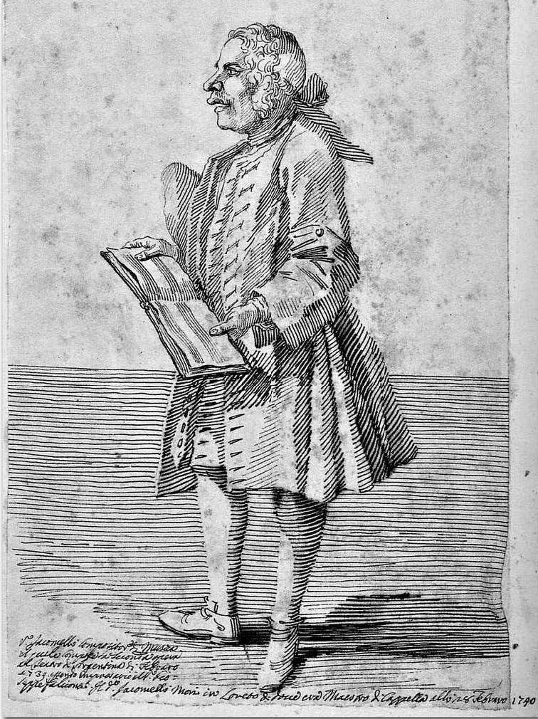 Geminiano Giacomelli, drawing by Pier Leone Ghezzi